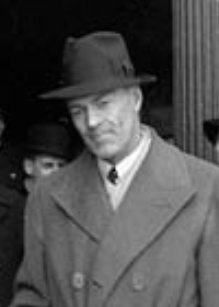 James H.R. Cromwell, U.S. Minister to Canada.